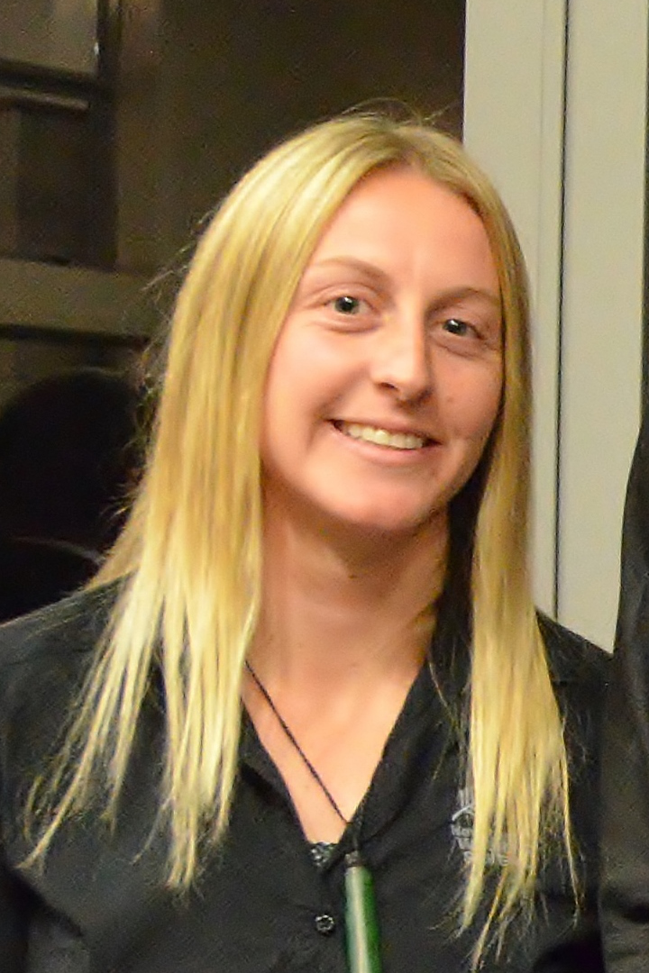 n 29 April, the Governor-General, Lt Gen The Rt Hon Sir Jerry Mateparae hosted a reception for New Zealand athletes and their support staff.